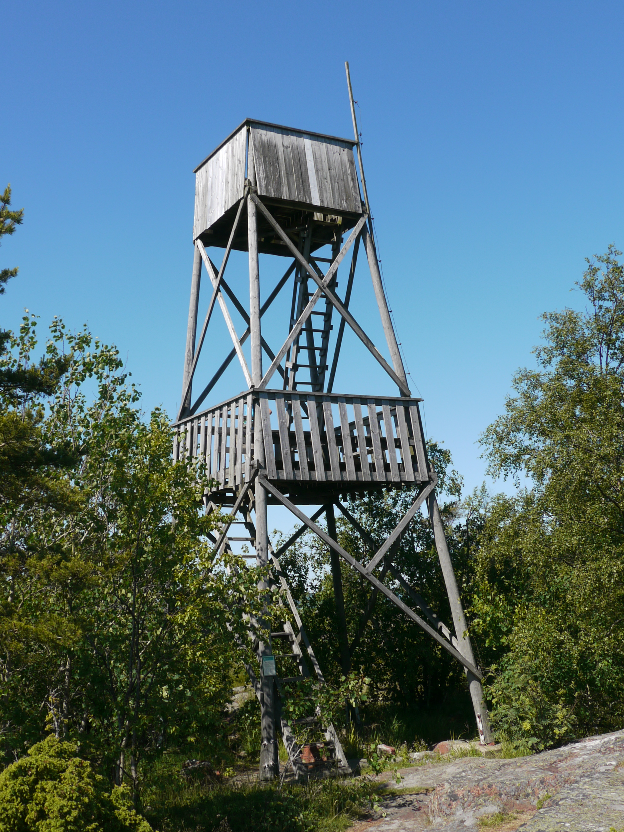 Observation tower at the southernmost tip of Herrö, Lemland, Åland